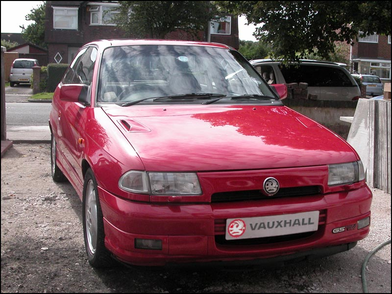 Descriptive photo of standard Vauxhall Astra GSi